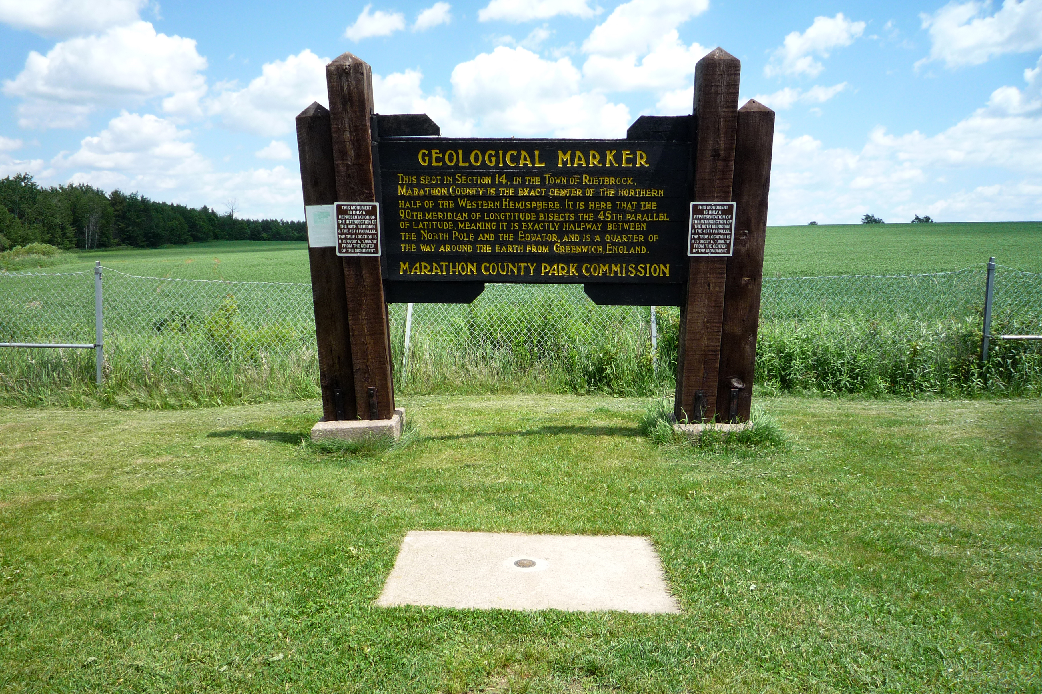 Sign for the Western Hemisphere's 45X90 point. This location and marker was intentionally misplaced, though signs clarifying the misdirection were only added after the increase in personal GPS devices (the sign identifying the error is on the left). The actual location is approx. 1000 feet behind and to the left of the sign and marker (in a farm field). However the marker is conveniently located off of a public road. It is located outside Poniatowski, Wisconsin, USA.